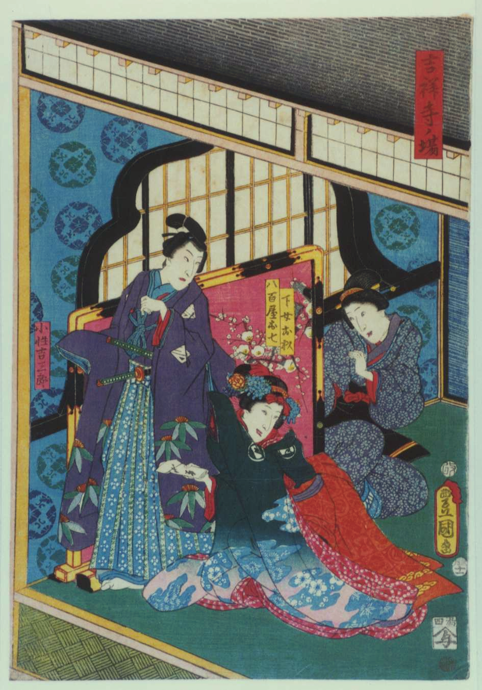 Woodblock print by Utagawa Kunisada I, here signing with 'Toyokuni ga'; the actors Bandō Hikosaburō V, Ichikawa Kodanji IV and Onoe Kikugorō IV as Kosho Kichiza (小性吉三), yaoya Oshichi (八百屋お七), gejo Osugi (下女お杉) in the play ’Shochikubai yuki no akebono', performed at the Ichimura theater; publisher: Ōtaya Takichi